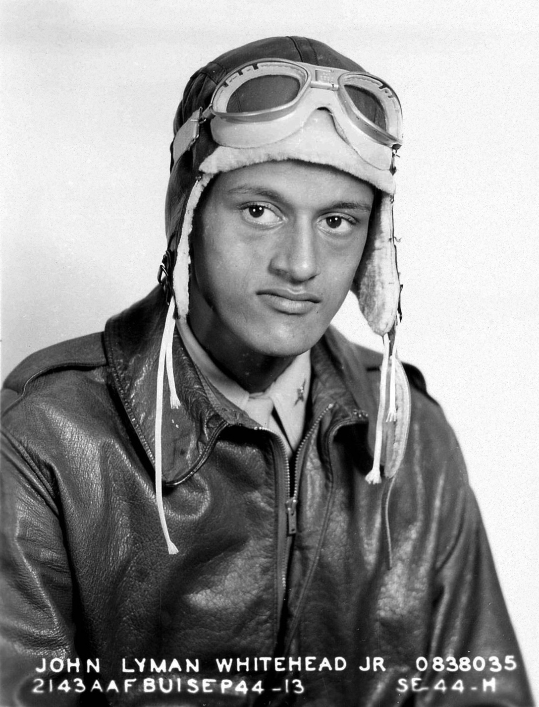 John L. Whitehead Jr was a Tuskegee airman who became the US Air Force's first African-American test pilot